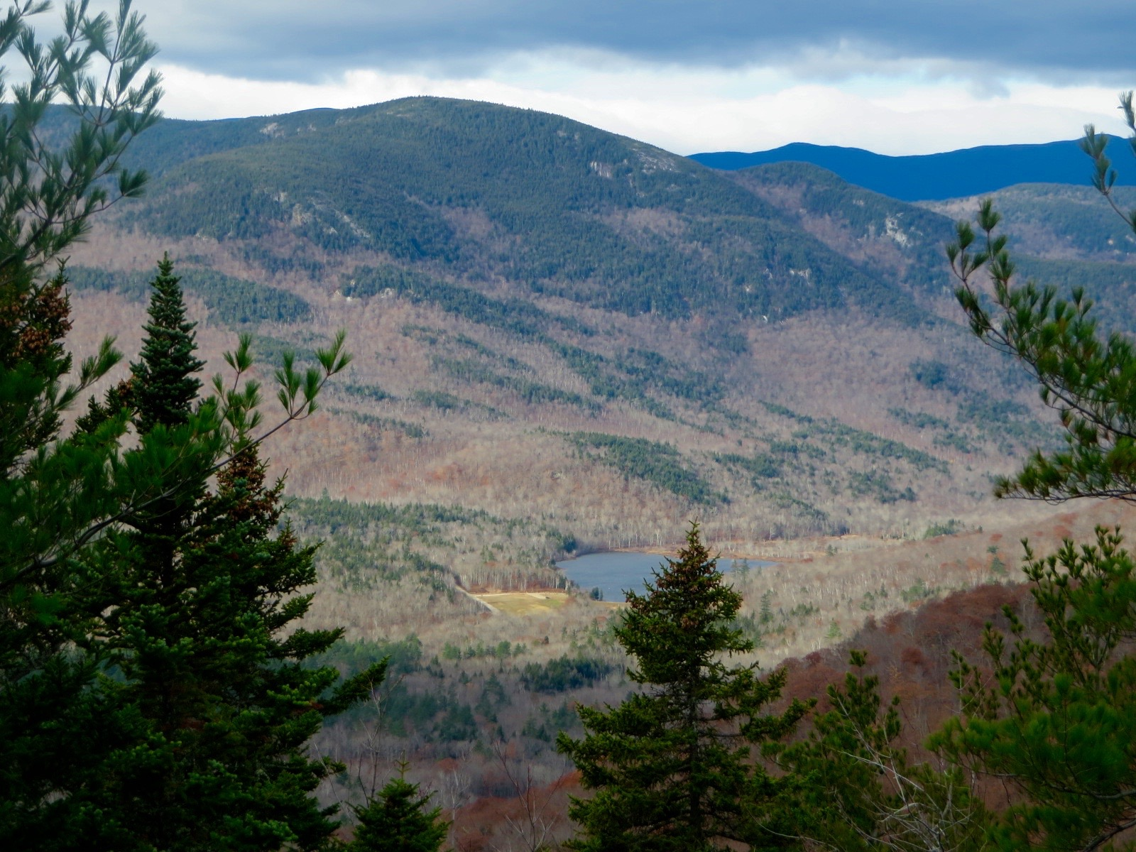 Mount Meader in the town of Chatham, eastern White Mountains